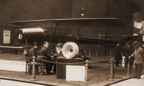 Henri Coanda airplane 1910 with the compressor shown